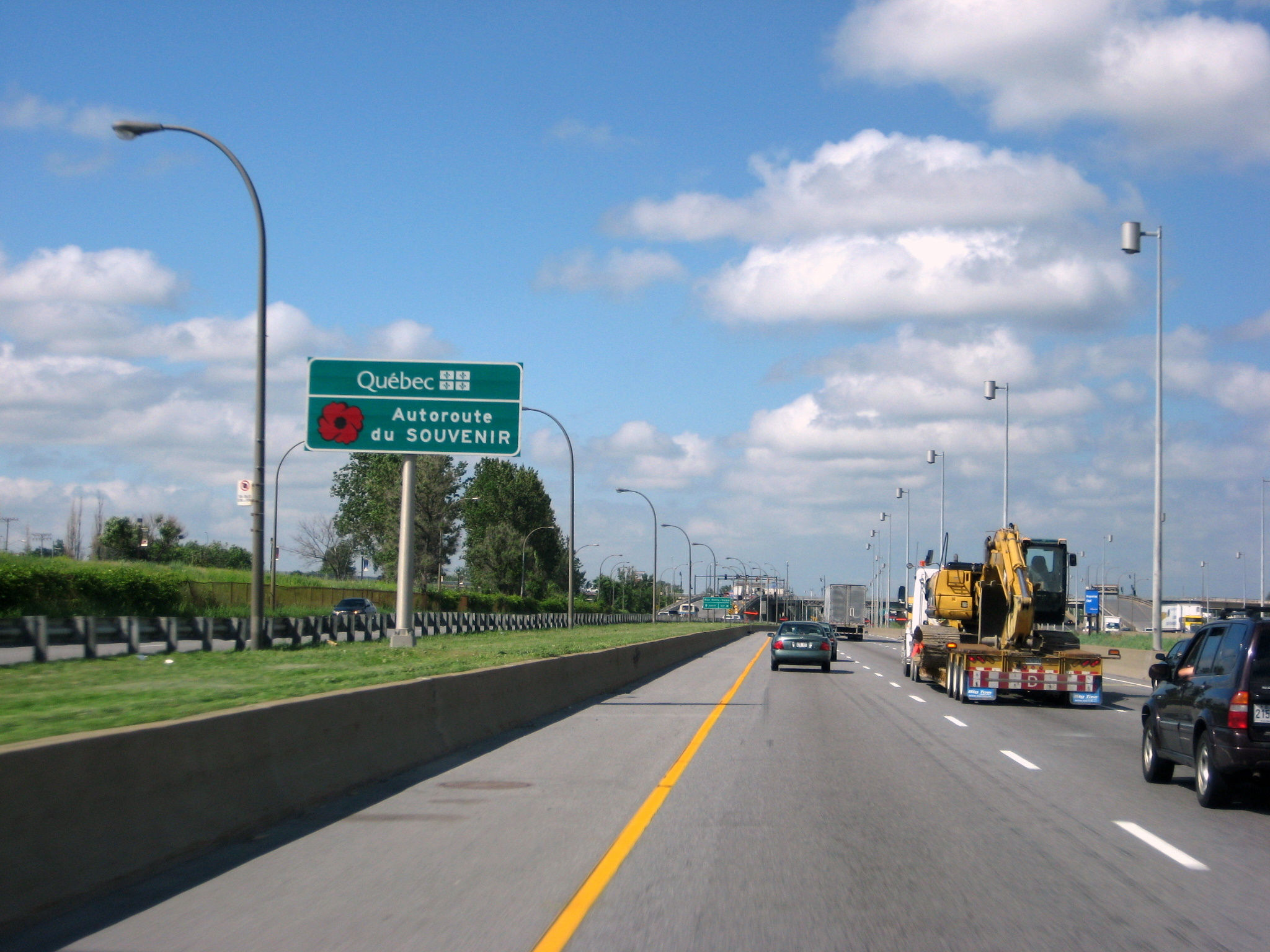 Quebec Autoroute 20 west in Montreal, ~km 66. Eastbound on right!